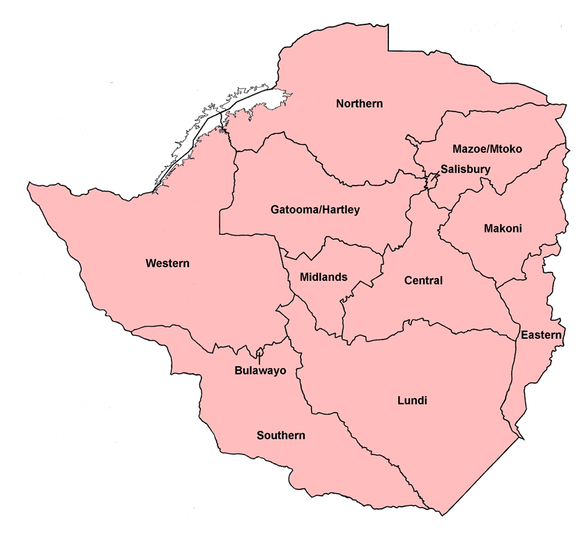 White roll constituencies in Zimbabwe Rhodesia and Zimbabwe. Used at the 1979 and 1980 elections.